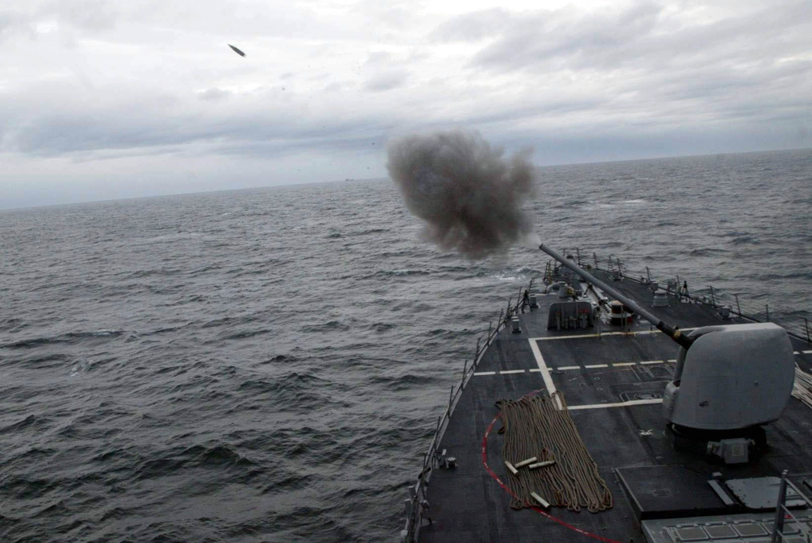 Atlantic Ocean (June 21, 2006) - Guided-missile destroy USS The Sullivans (DDG 68) fires from the 5"gun during a training exercise. The Sullivans is participating in Neptune Warrior, a course designed to improve coordination between North Atlantic Treaty Organization (NATO) allies. U.S. Navy photo by Cryptologic Technician 1st Class Charles Wilson (RELEASED)